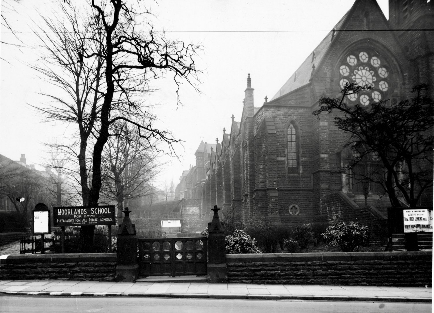 View shows Headingley Hill congregational church on Headingley Lane next to Moorland Boys School. Wooden gates by ornate stone gateposts are in the centre of the picture. The church has a large, intricate, arched window.